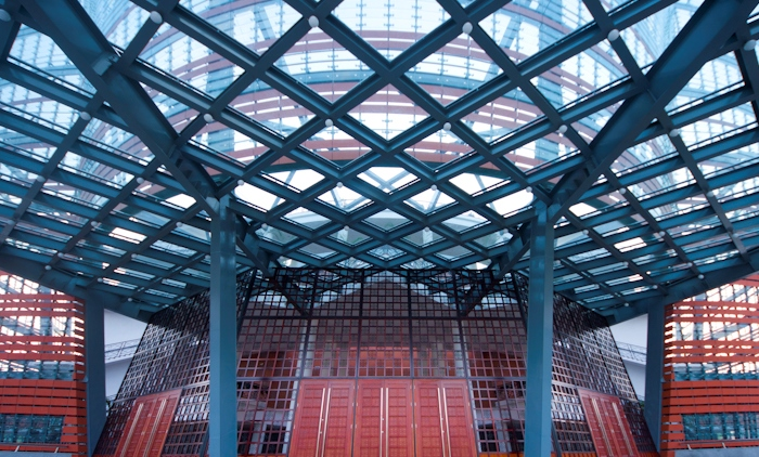 The main entrance to the auditorium